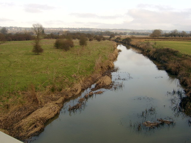 River Beult from Stile Bridge River Beult towards the north-east, from Stile Bridge where the A229 crosses the river